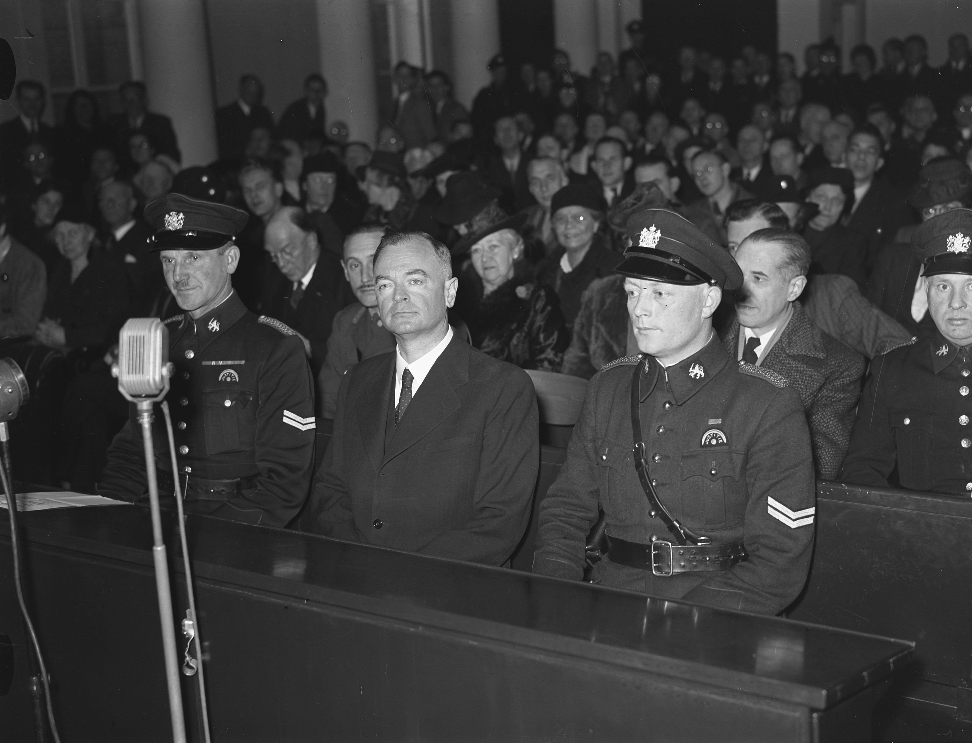 The process of Anton Mussert. Mussert on trial in the former ballroom of Kneuterdijk Palace in The Hague.